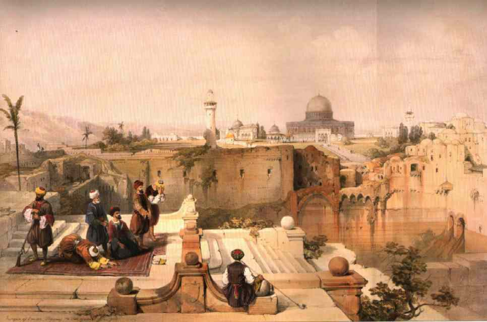 Prayer in Mosque of Omar, Jerusalem, 1840.